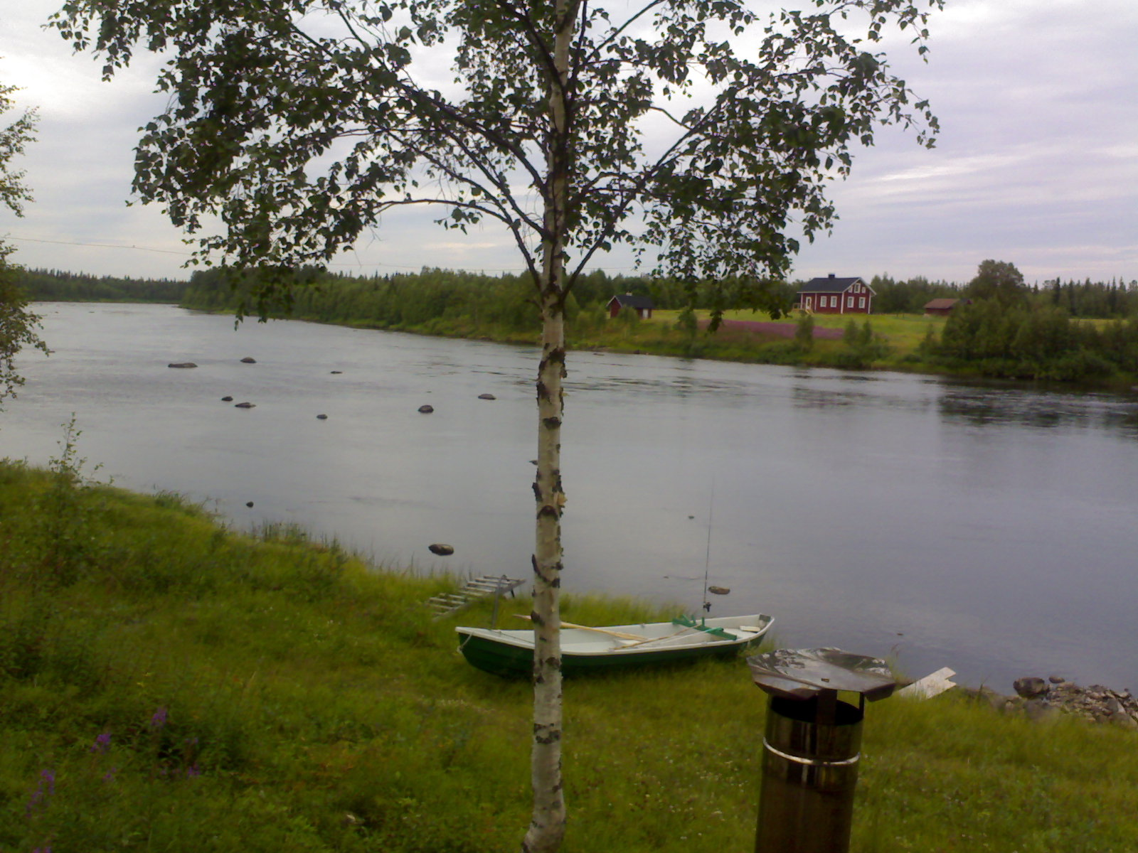 River of Ounasjoki in August 2006 for terasse of Sikkola an boeard of Pierkukoski falls. Kittilä, Finland